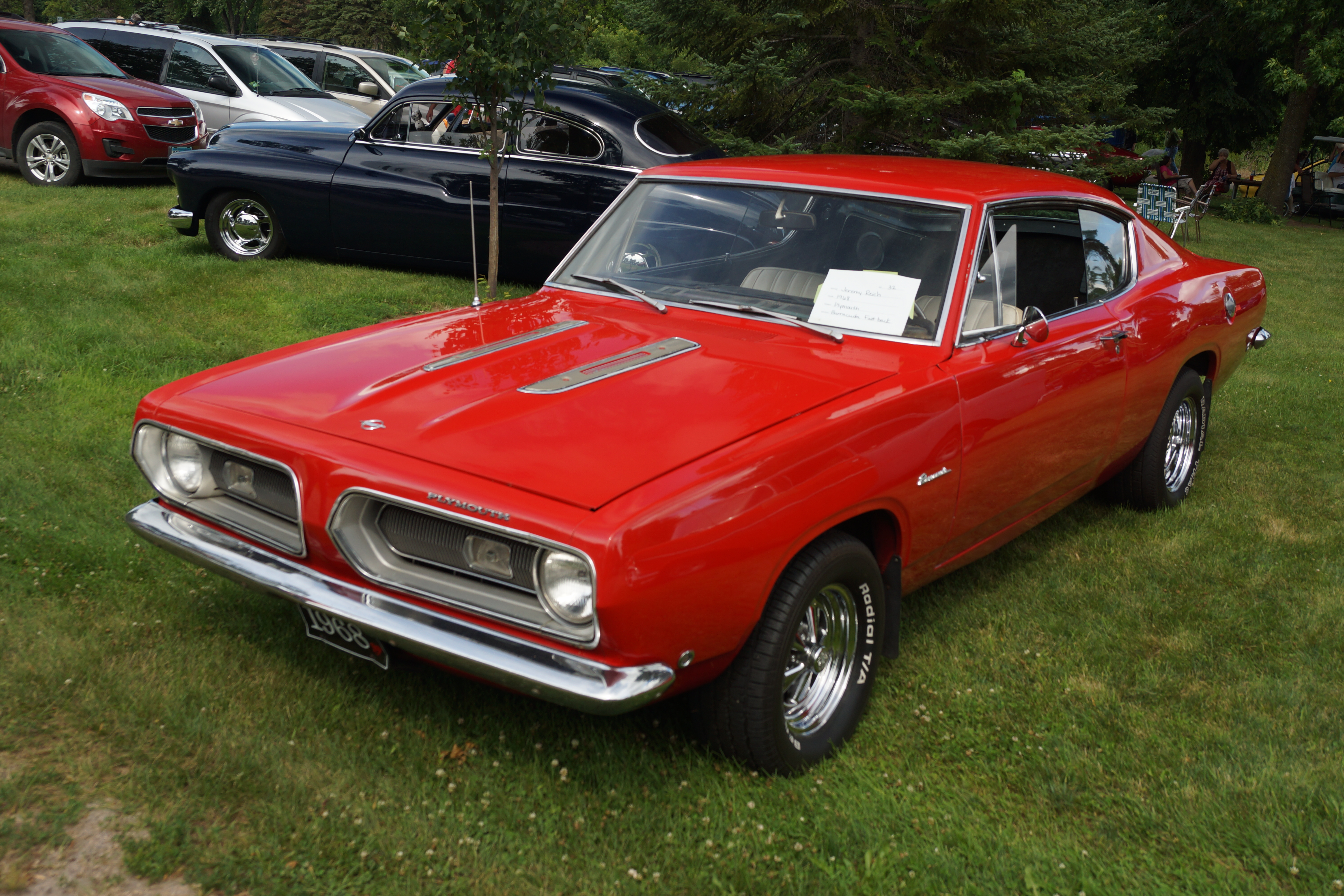 Click here for more car pictures at my Flickr site. 29th Annual "Kids & Cars" Car Show Ambush Park Benson, Minnesota July 2016